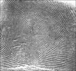 Picture of a right loop fingerprint pattern. The bell shaped portion of the loop is leaning medially toward the body. Image source: NIST.